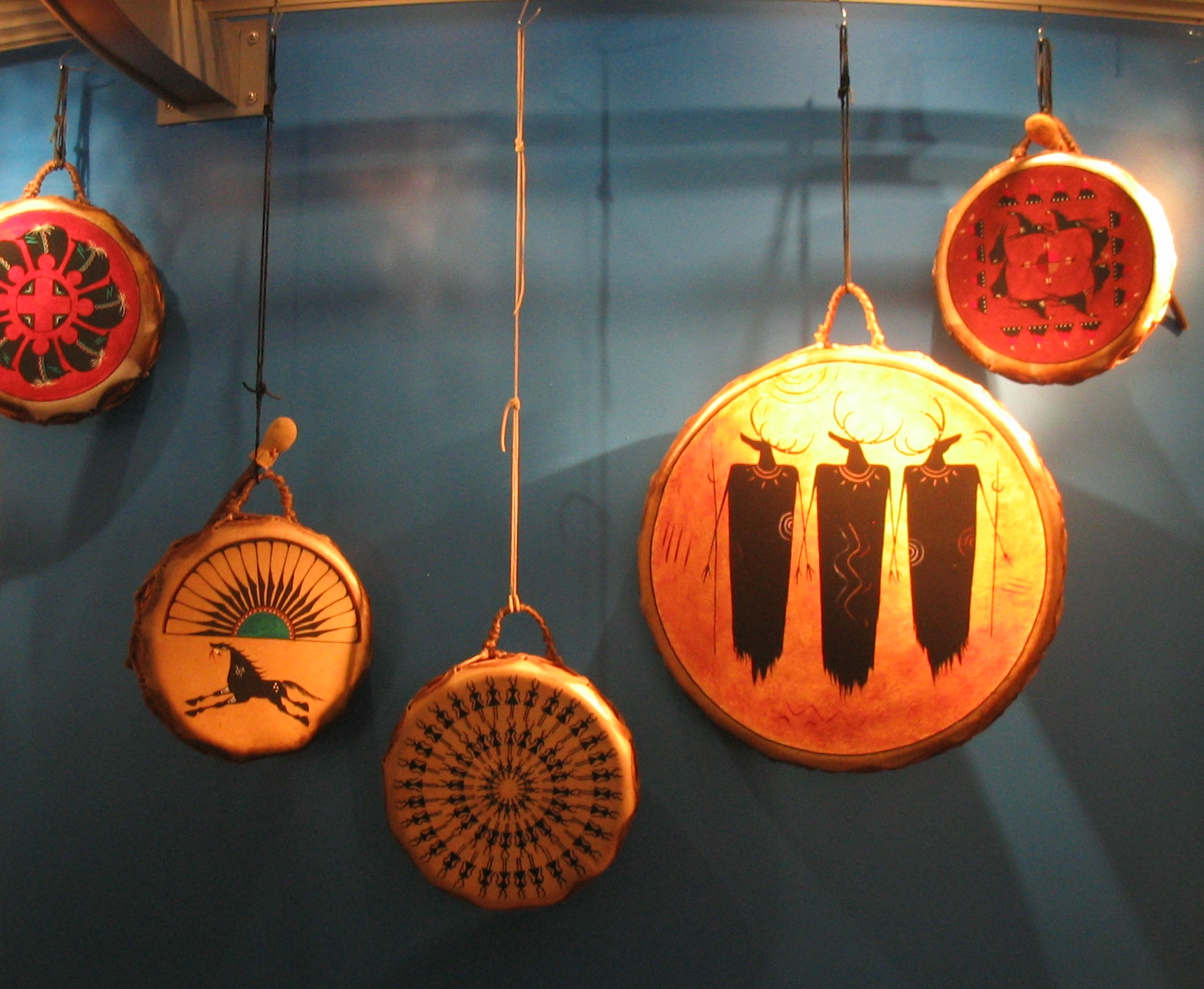 Drums for sale at the National Museum of the American Indian. Rather kitchy